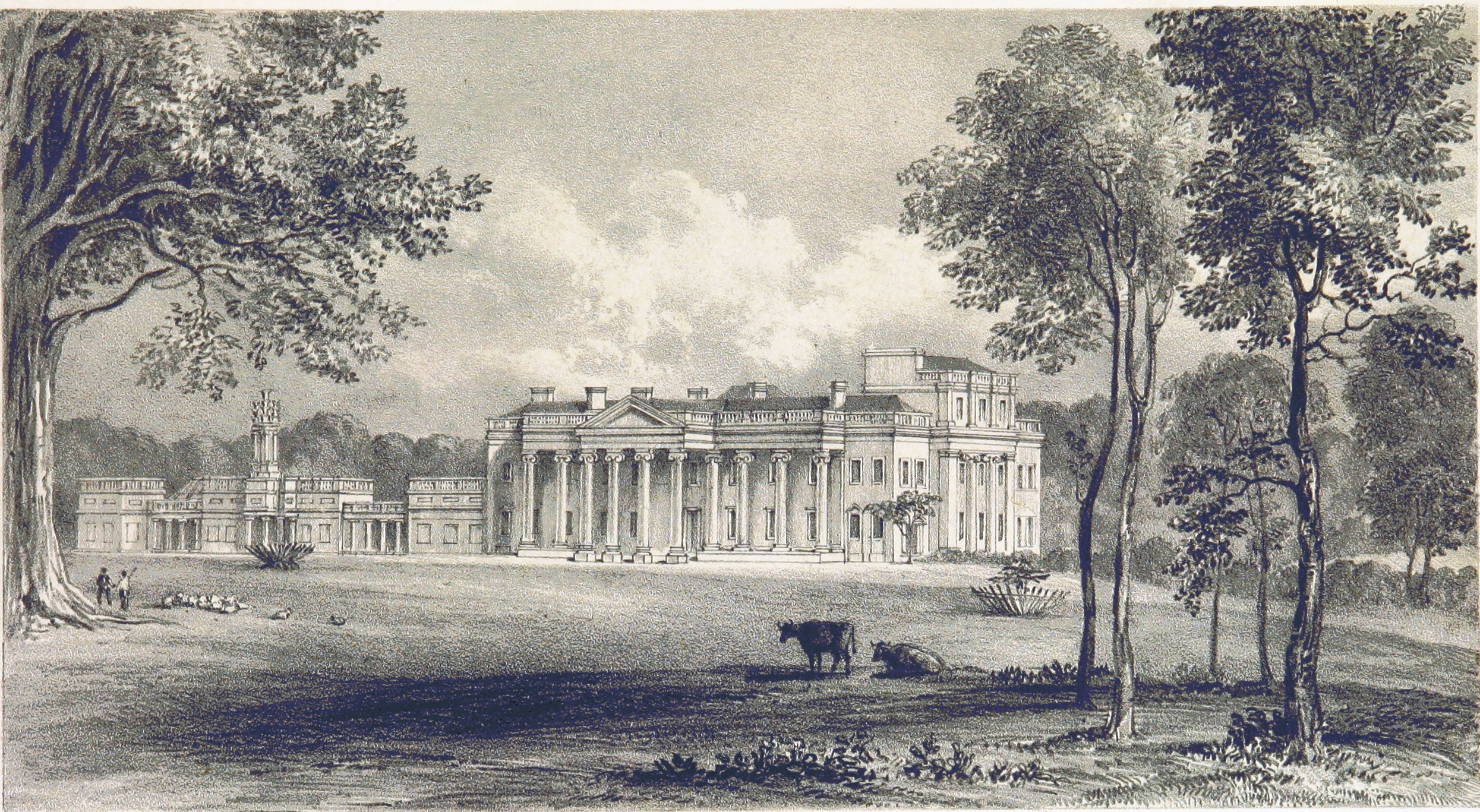 North Stoneham House (long since demolished) in Hampshire. This image is derived from an image in a book in the public domain, uploaded to the Flickr Commons by the British Library. Details of that image follow: Image taken from page 405 of 'Sketches of Hampshire; embracing the architectural antiquities, topography, etc. of country adjacent to the river Itchen; with plates of seats, and of the tesselated pavement at Bramdean, vignettes ... and a map' Image taken from: Title: "Sketches of Hampshire; embracing the architectural antiquities, topography, etc. of country adjacent to the river Itchen; with plates of seats, and of the tesselated pavement at Bramdean, vignettes ... and a map" Author: Duthy, John. Shelfmark: "British Library HMNTS 10368.g.5." Page: 405 Place of Publishing: Winchester Date of Publishing: 1839 Issuance: monographic Identifier: 001018328